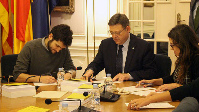 A photographic image of the agreement between representatives of the three parties forming the "Acuerdo del Botánico".